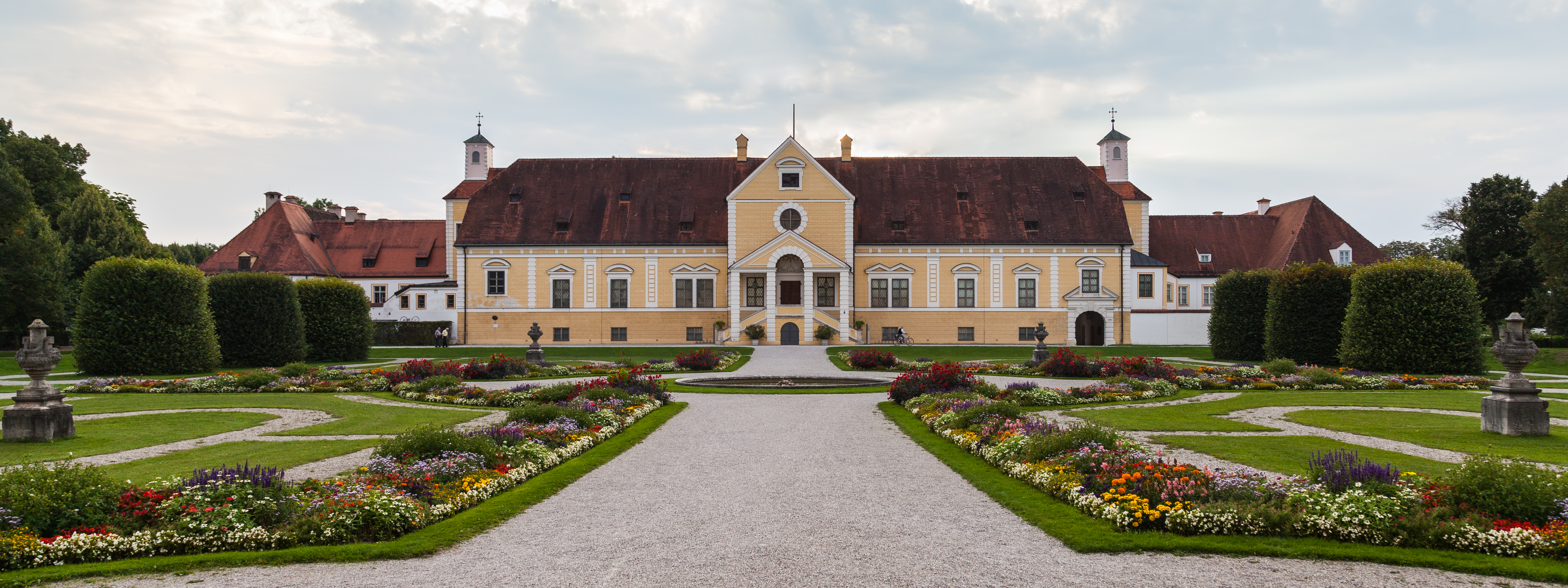 Old Schleissheim Palace, Oberschleissheim, Germany